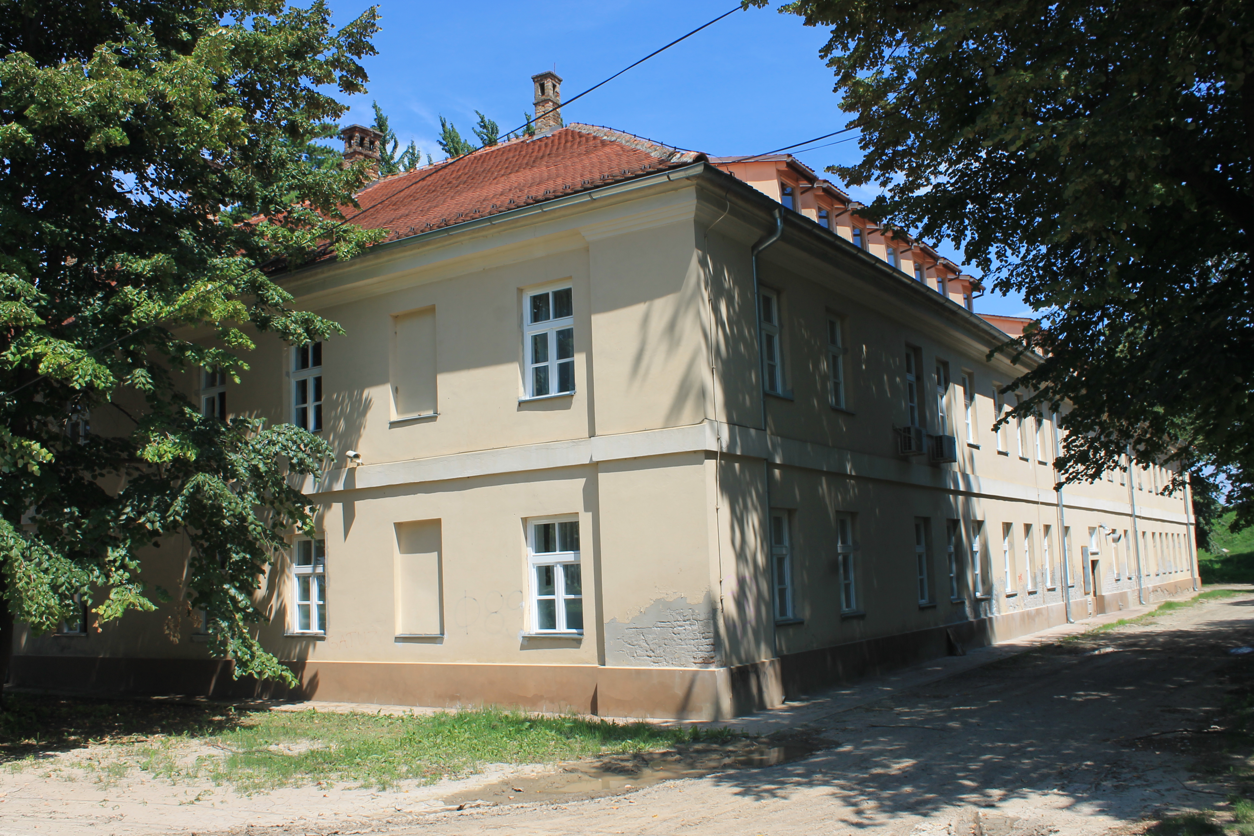 Petrovaradin Fortress